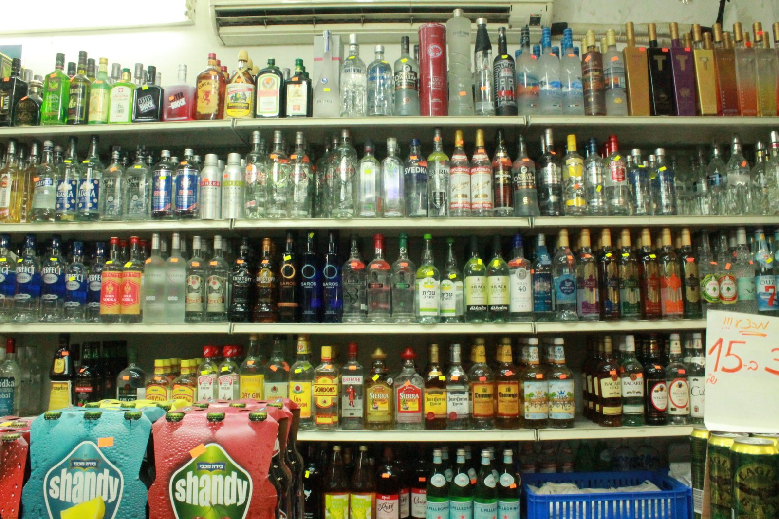 wine and etc